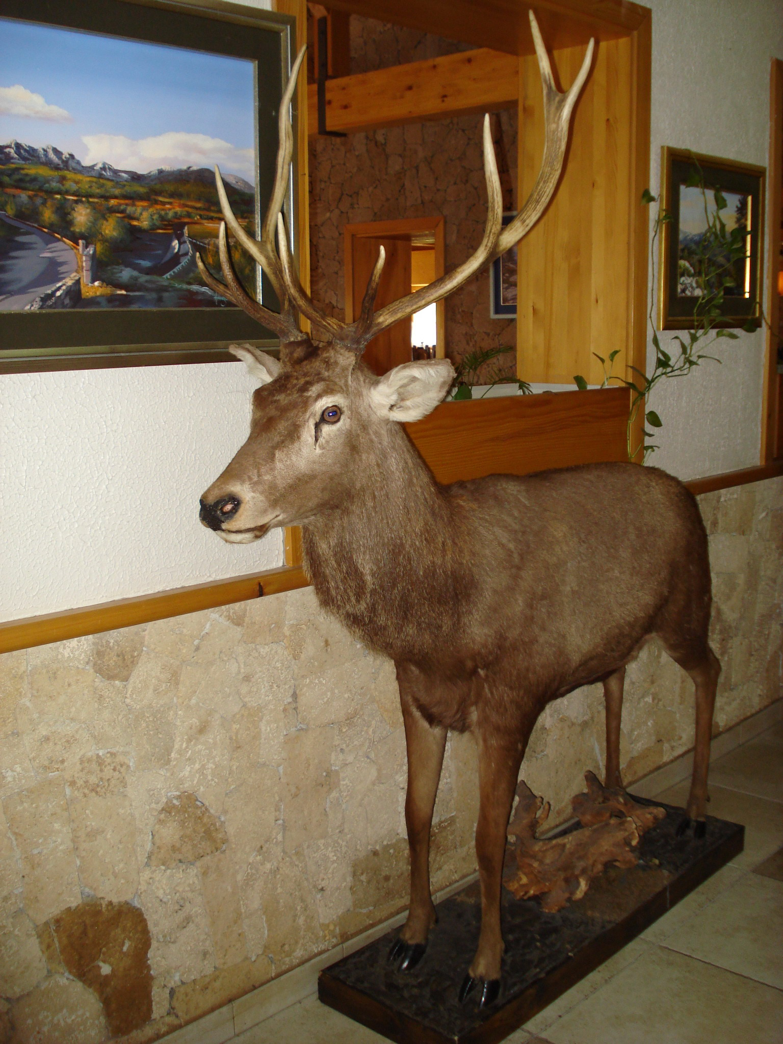 Stuffed deer in the Zir rest stop at A1 Highway in Lika, CroatiaHrvatski: Preparirani jelen u odmorištu Zir na Autocesti A1 u Lici, Hrvatska